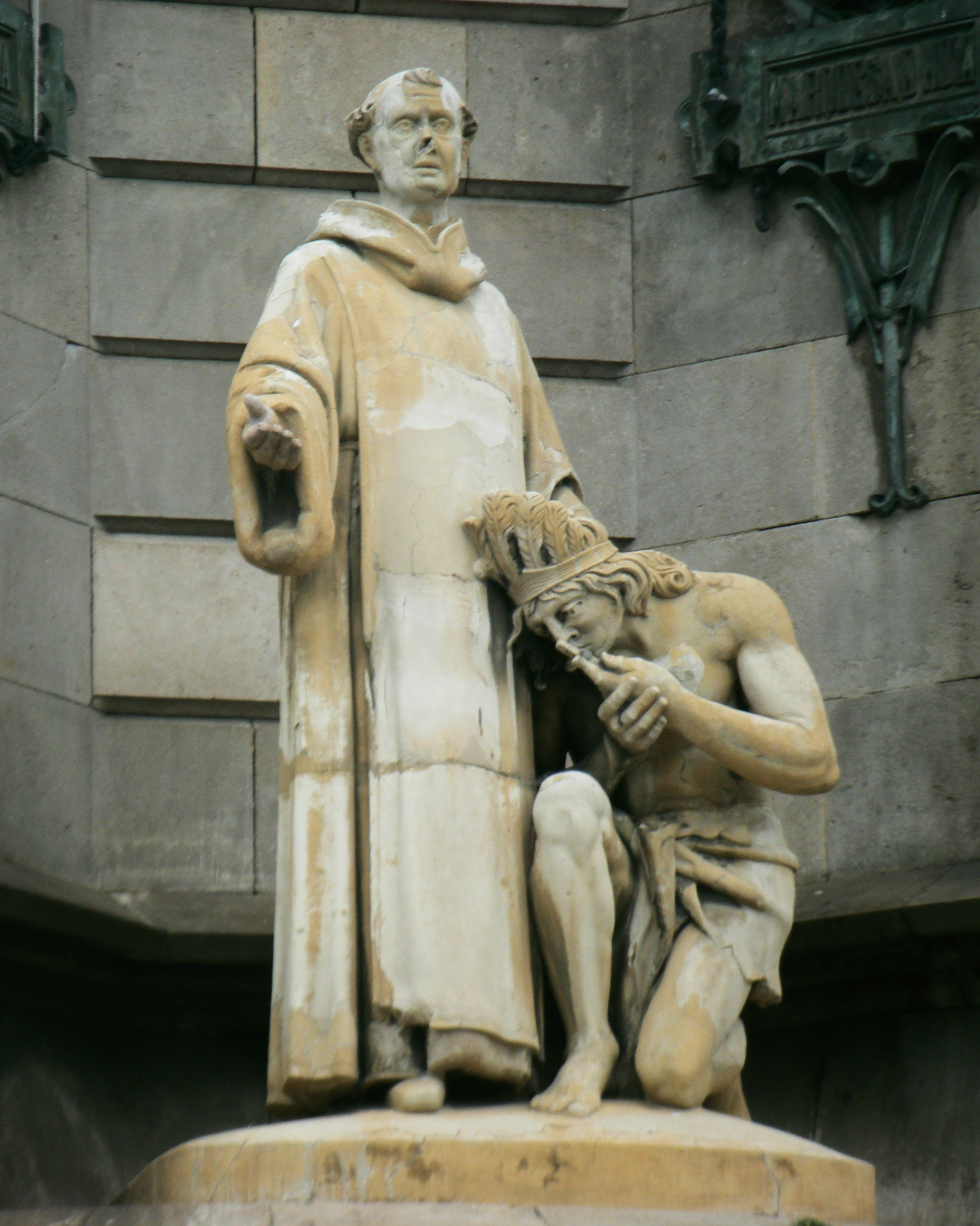 Bernardo Buil